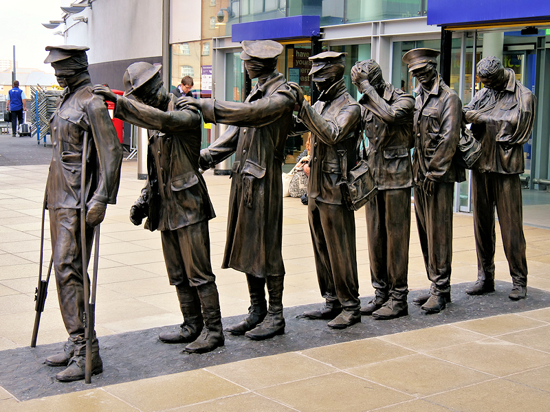 The poignant statue 'Victory over Blindness' which now stands outside the entrance to Manchester’s Piccadilly Station was unveiled on 16 October 2018 by the Countess of Wessex. It depicts six blinded soldiers walking in a line, supporting each other with their hands on their comrades’ shoulders; they are being led by a seventh who appears to have lost one eye and is also reliant on crutches. It is accompanied by two plaques, one of which is in braille. The statue is intended to mark the centenary of the end of the First World War and also to act as a reminder of the sacrifice of soldiers who lost their sight during that and subsequent wars being a testament to the thousands of blind veterans we have supported in rebuilding their lives after sight loss. The work, by the sculptor Johanna Domke-Guyot, was commissioned by Blind Veterans UK, a charity which was set up in 1915 and supported around 3,000 soldiers blinded in the conflict through rehabilitation and training. Today it helps veterans regardless of when they served or how they lost their sight. The charity believes it is the only memorial in the UK to portray disabled veterans.